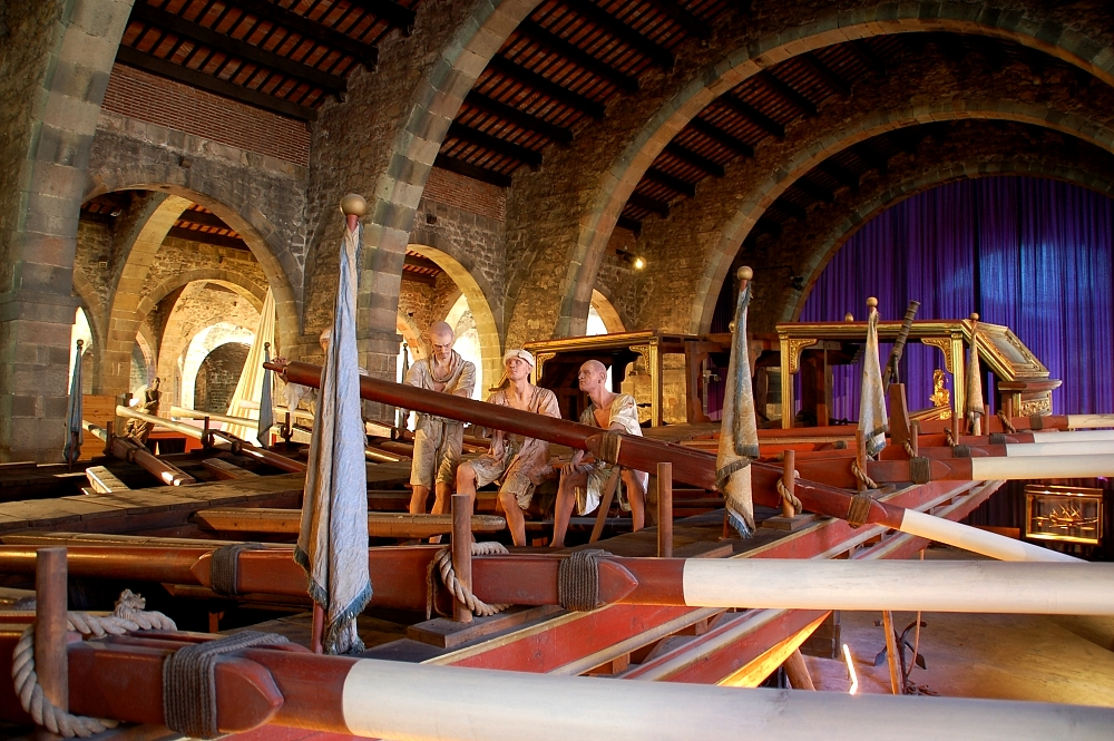 Convicted at row, in a spanish Golden Century galley, La Real.